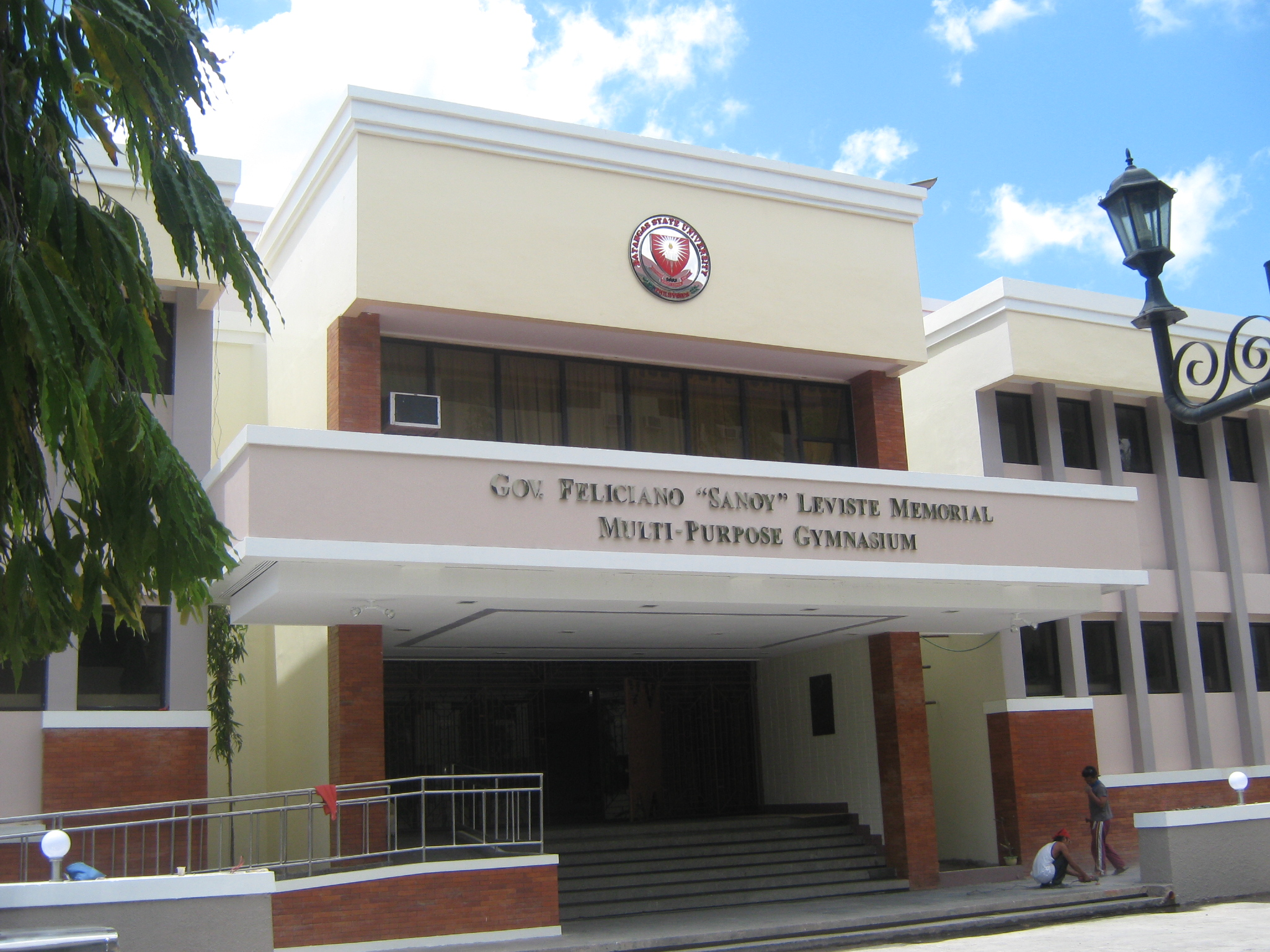 This image depicts the Governor Feliciano Sanoy Leviste Memorial and Multi-Purpose Gymnasium located in Batangas State University Main Campus I, Batangas City, Philippines. Tagalog: Ipinapakita ng larawang ito ang Gobernador Feliciano Sanoy Leviste Memoryal and Multi-Purpose Himnasyo na matatagpuan sa Pambansang Pamantasan ng Batangas Pangunahing Kampus I, Lungsod ng Batangas, Pilipinas.